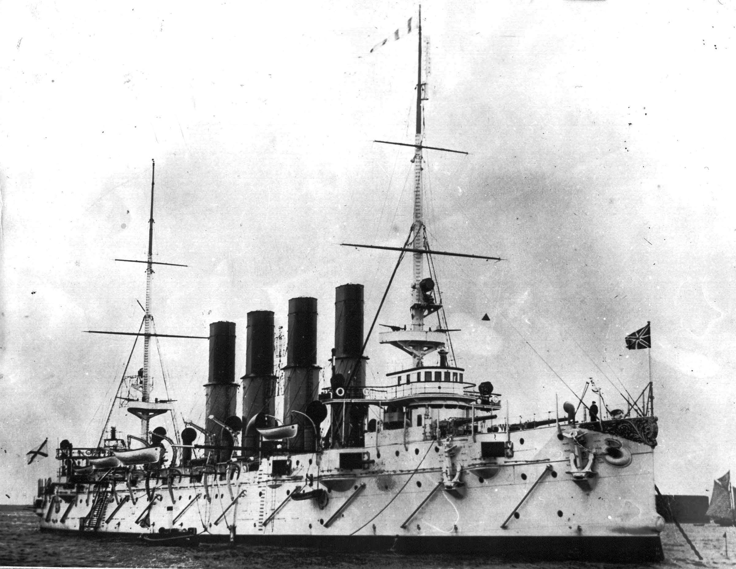 The Imperial Russian protected cruiser Varyag in Kronstadt.